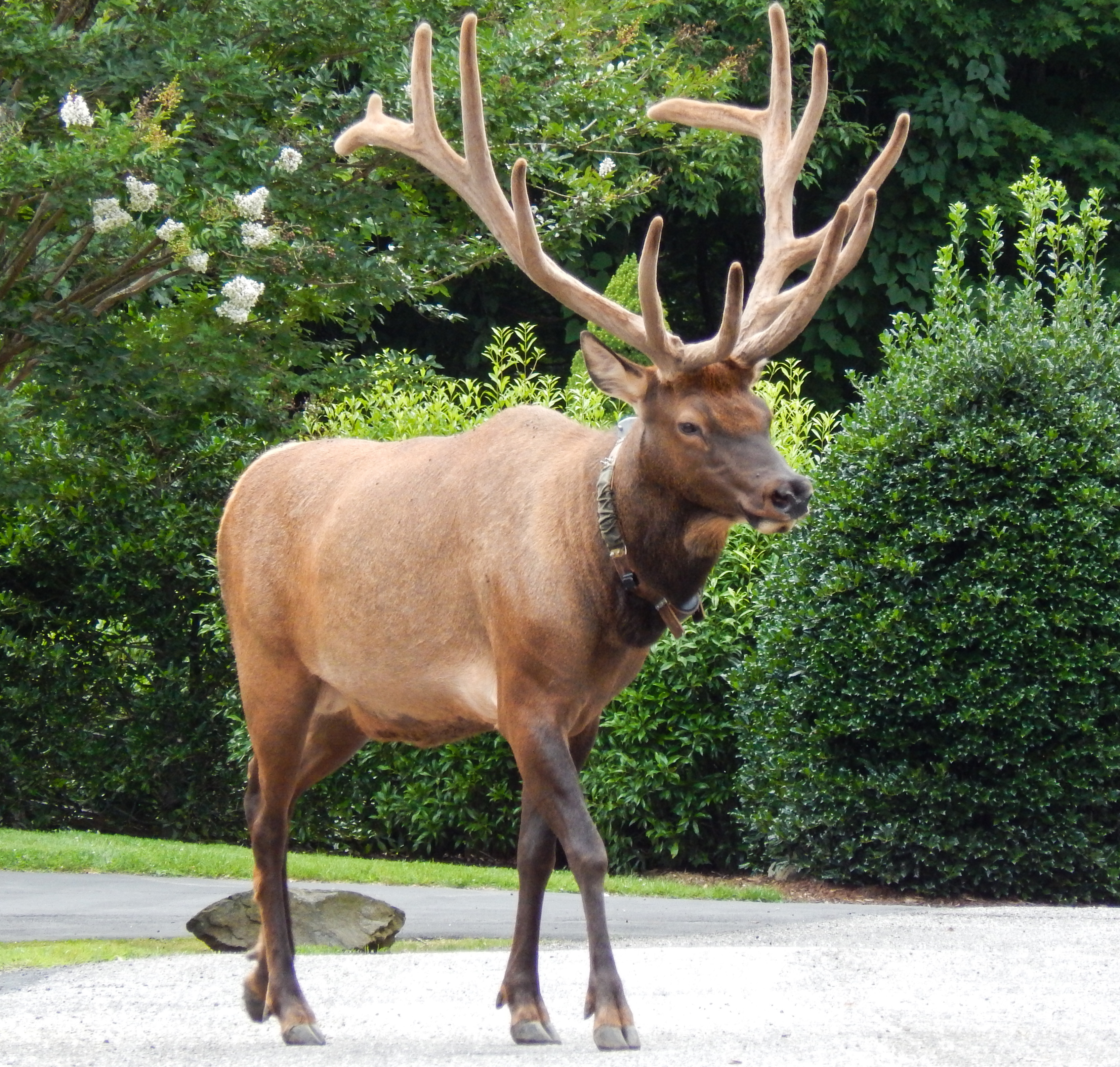 An elk was wandering around The Cliffs neighborhood in the afternoon in Maggie Valley, North Carolina.